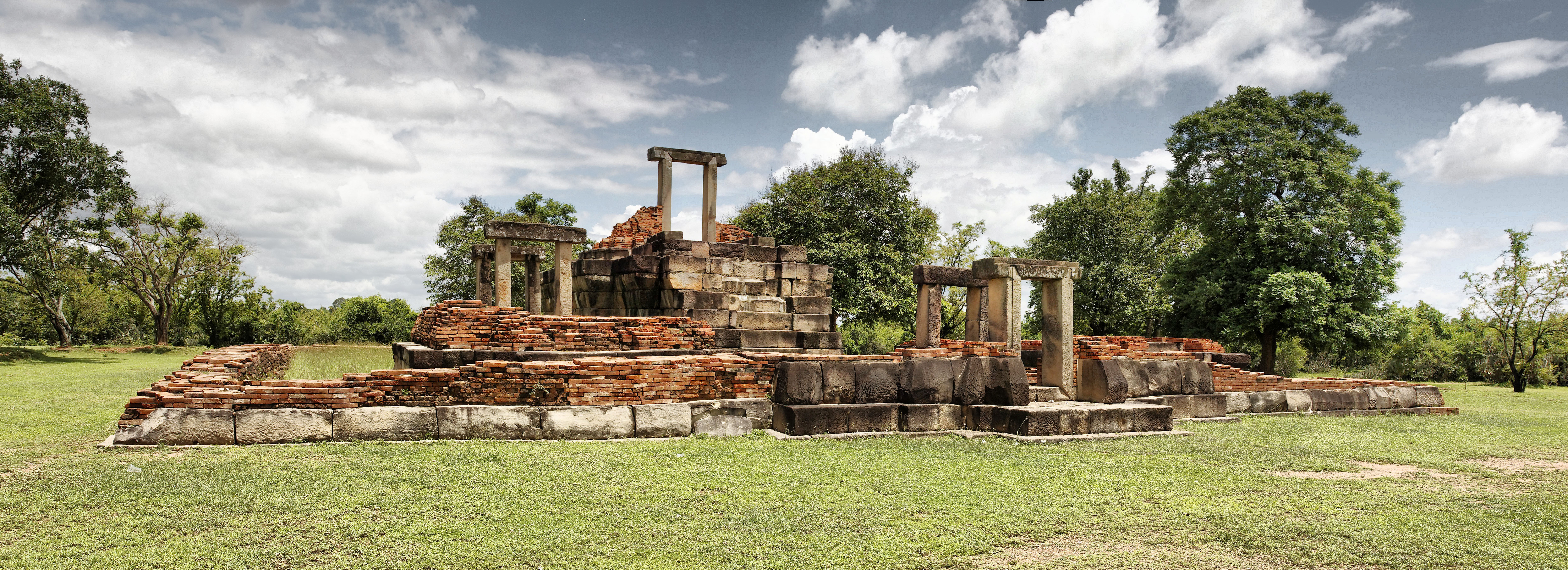 Prasat Non Ku, Thailand